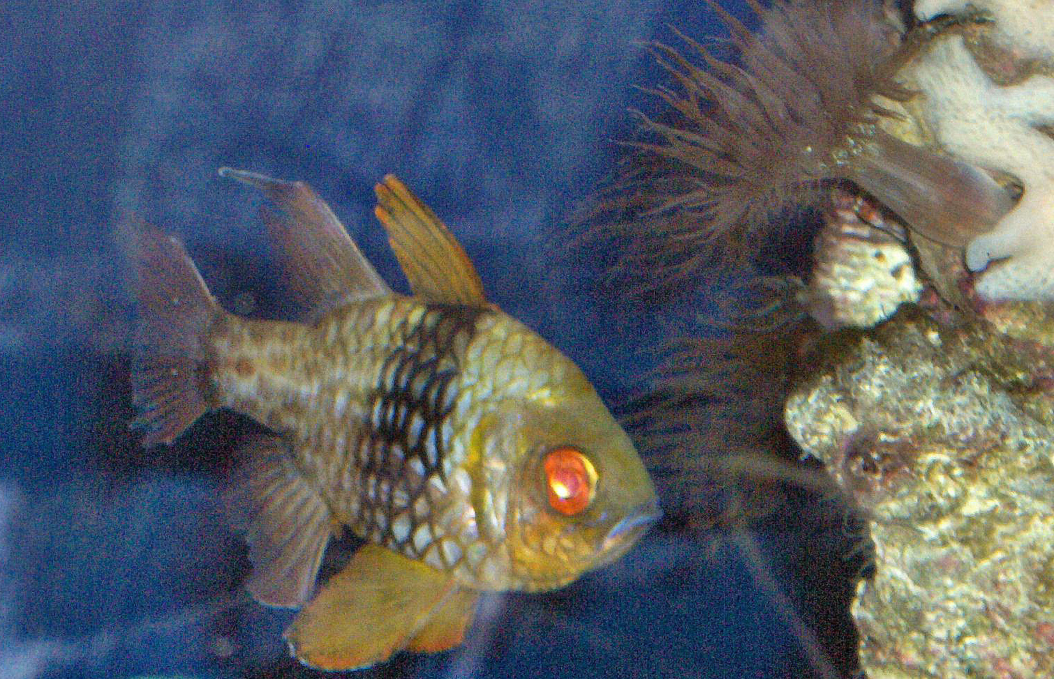 Pajama cardinalfish (Sphaeramia nematoptera ); Musée Océanographique de Monaco